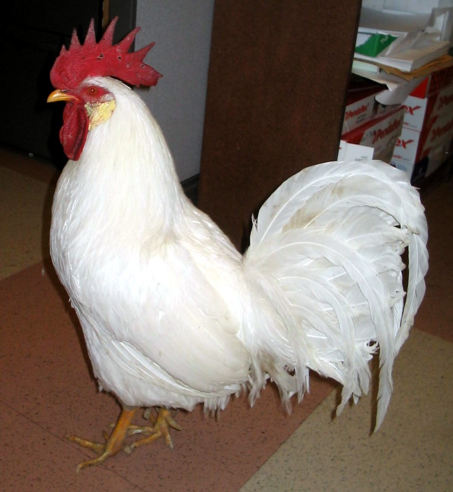 This rooster was found running in the street. Relocated to a farm.